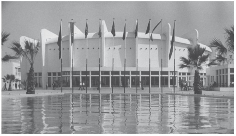 architectural work by Levandowski